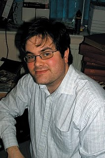 Author photo(c)2010 David Moore (User:Davidtmoore)